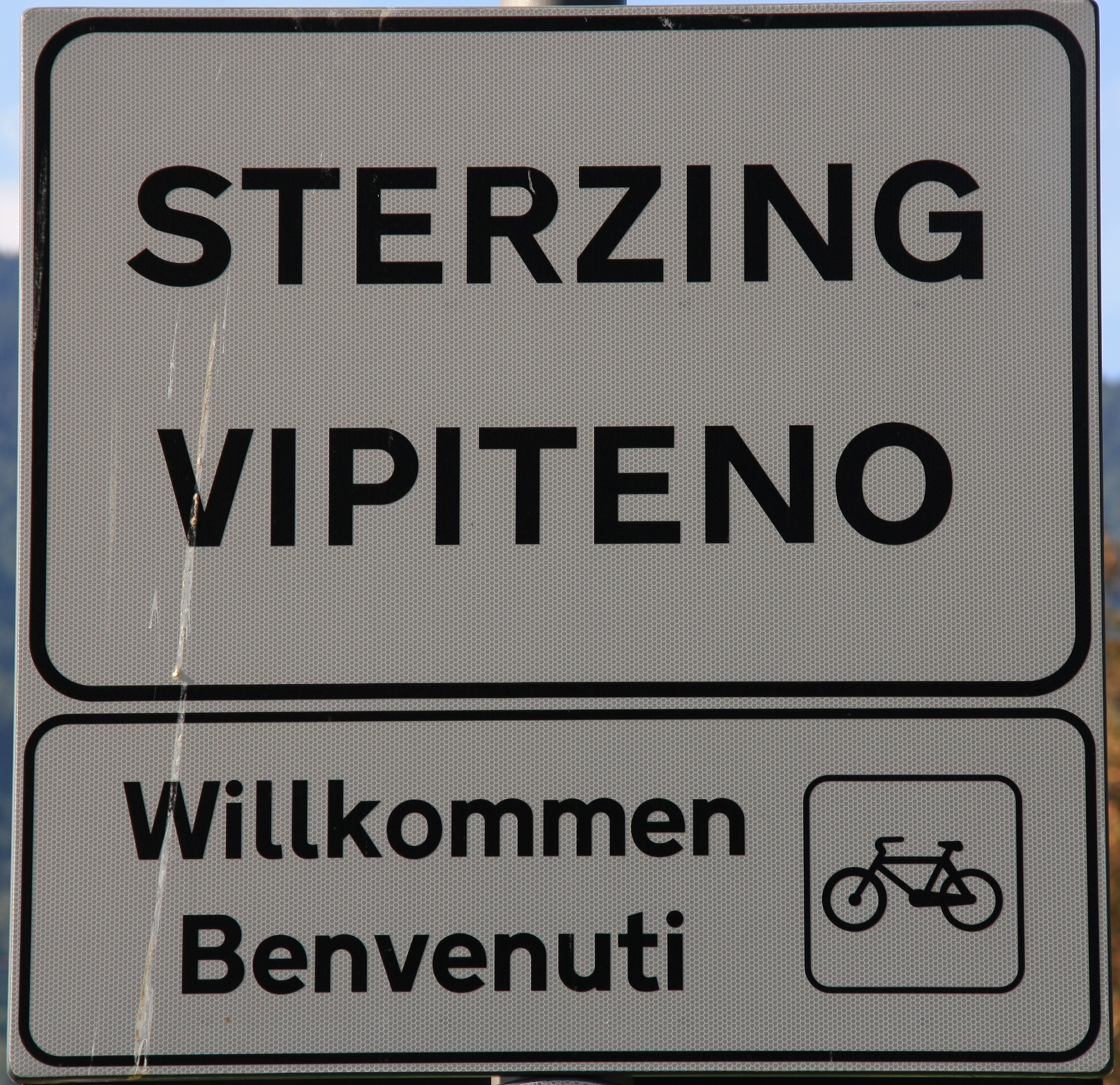 Italy, South Tirol, Sterzing. The bilingual city name sign.